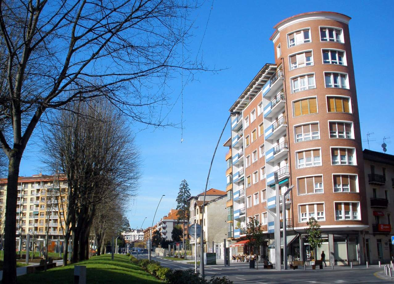 Calle de San Pedro, Amorebieta (Vizcaya)